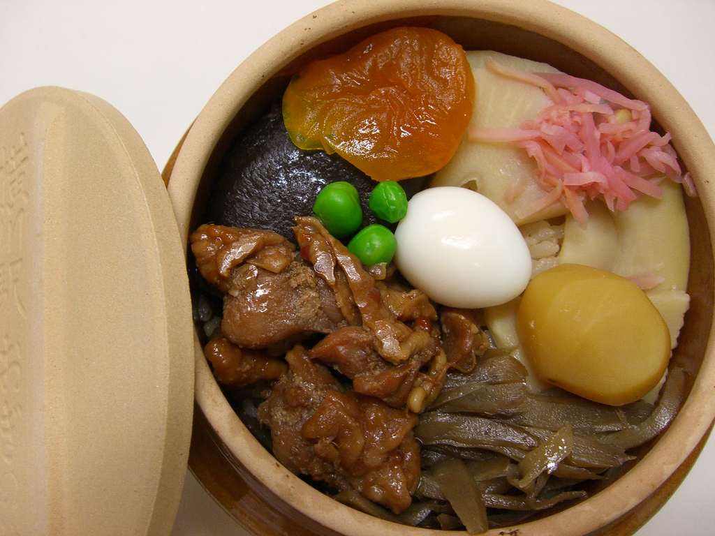 Tōge no Kamameshi, one of the Ekibens being sold at Yokokawa Station in Annaka, Gunma pref., Japan. Visit the official website (Japanese).